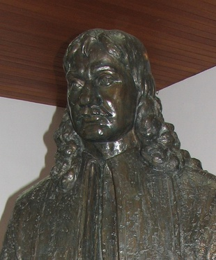 Statue of Frederick Coyett in Old Castle of Anping, Tainan, Taiwan.